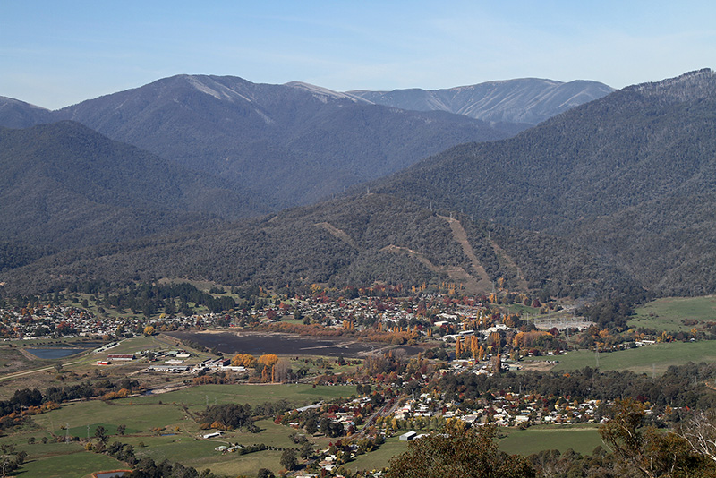 The town of Mount Beauty on the Kiewa River in the Kiewa Valley, in the shadows of the Bogong High Plains. Looking east from Sullivans Lookout on the Tawonga Gap Rd. Victoria, Australia.